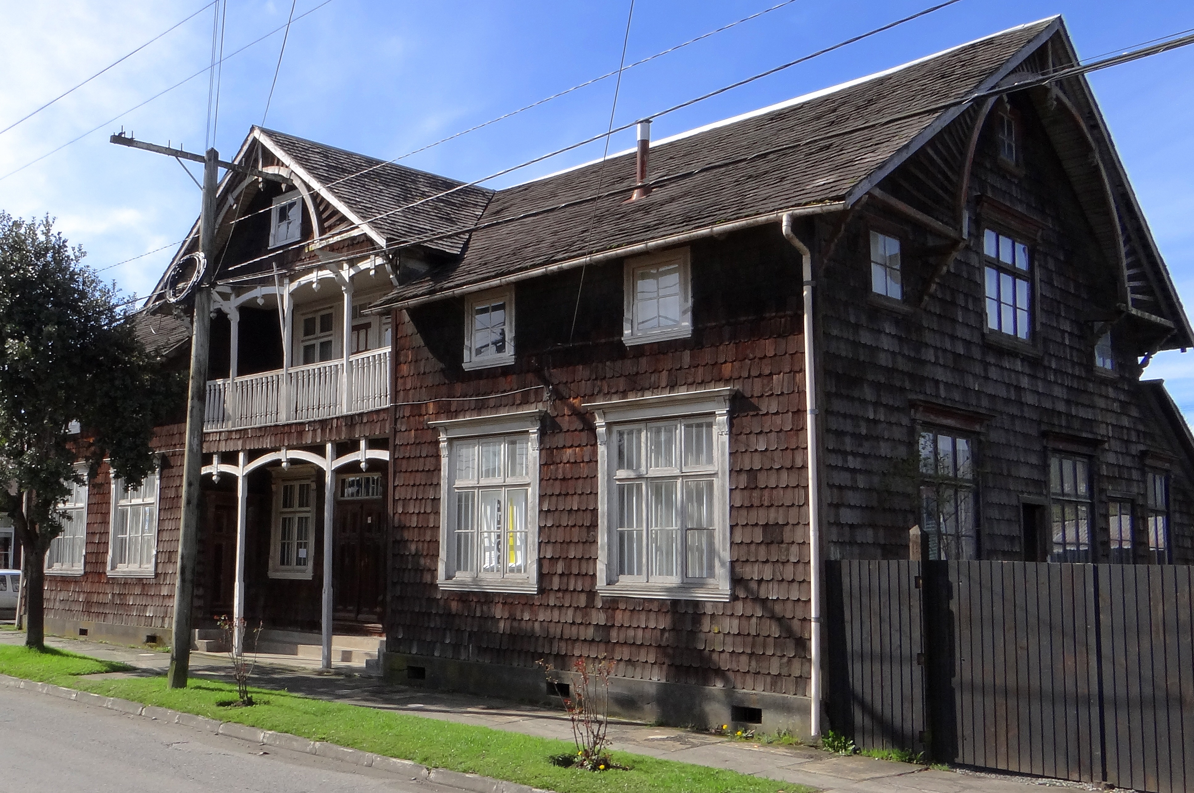 This is a photo of a national monument in Chile: 727